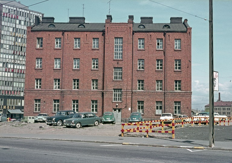 Last of the old military barracks in Kamppi, Helsinki, Runeberginkatu 1